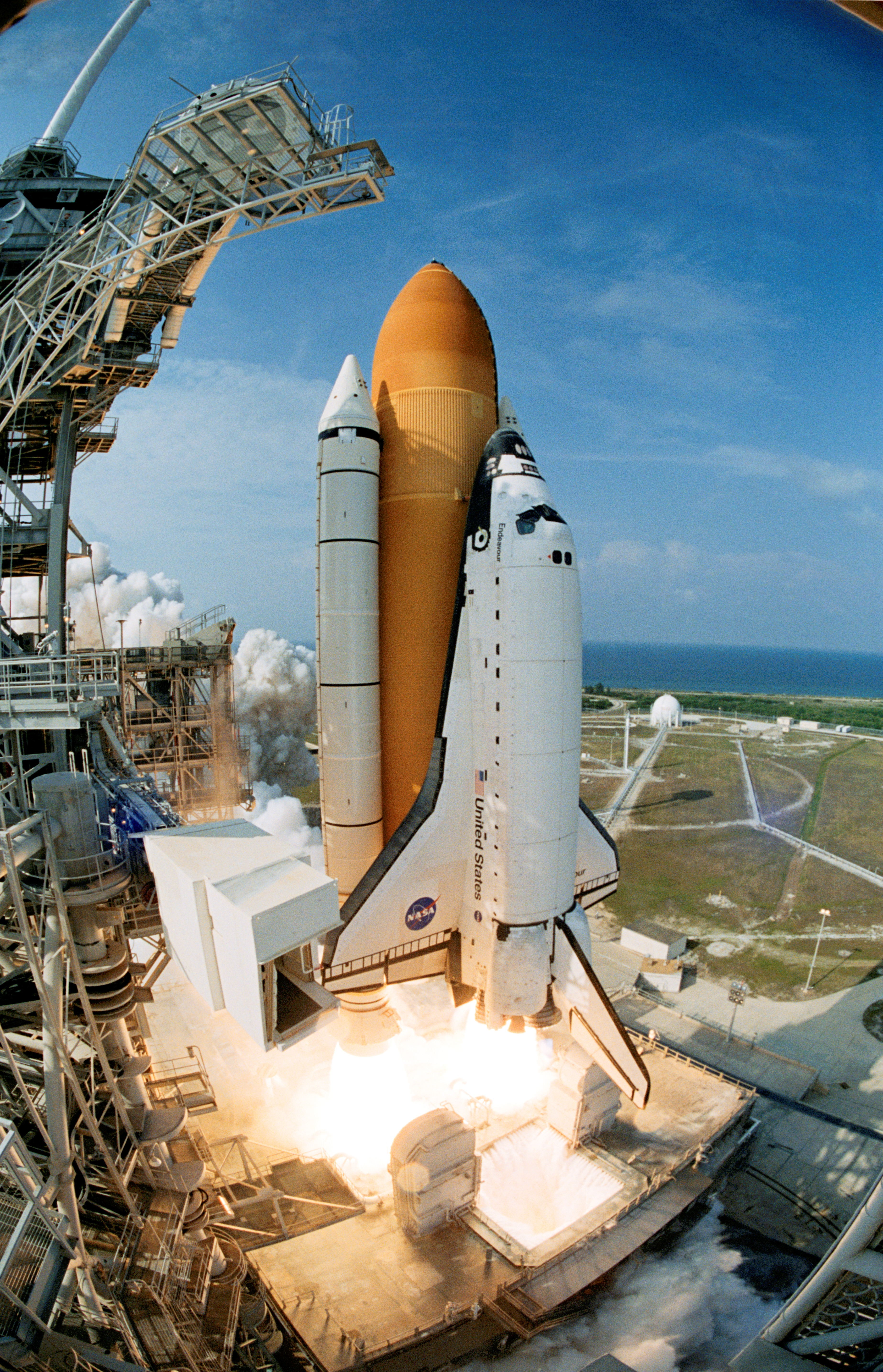 The Space Shuttle Endeavour lifts off, creating billows of smoke and steam on its way into space for mission STS-111 to the International Space Station (ISS). Liftoff occurred at 5:22:49 p.m. (EDT), June 5, 2002. The STS-111 crew includes astronauts Kenneth D. Cockrell, commander; Paul S. Lockhart, pilot, and Franklin R. Chang-Diaz and Philippe Perrin, mission specialists. Also onboard were the Expedition Five crew members including cosmonaut Valery G. Korzun, commander, along with astronaut Peggy A. Whitson and cosmonaut Sergei Y. Treschev, flight engineers. Perrin represents CNES, the French space agency, and Korzun and Treschev are with the Russian Aviation and Space Agency (Rosaviakosmos). This mission marks the 14th Shuttle flight to the International Space Station and the third Shuttle mission this year. Mission STS-111 is the 18th flight of Endeavour and the 110th flight overall in NASA's Space Shuttle program.